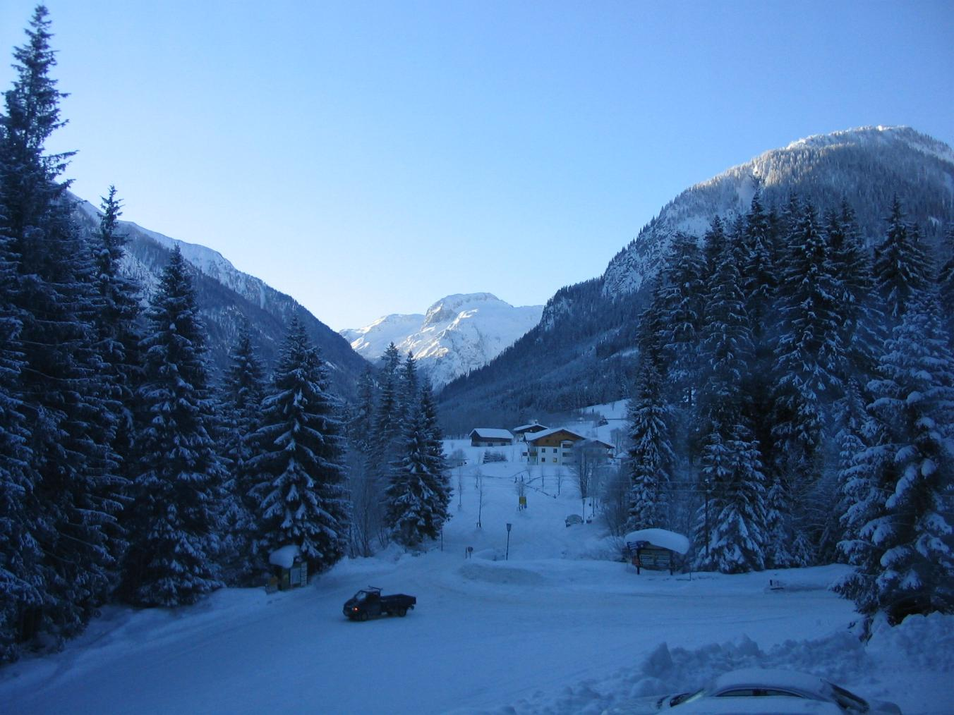 Flachauwinkl at dawn with view to the south